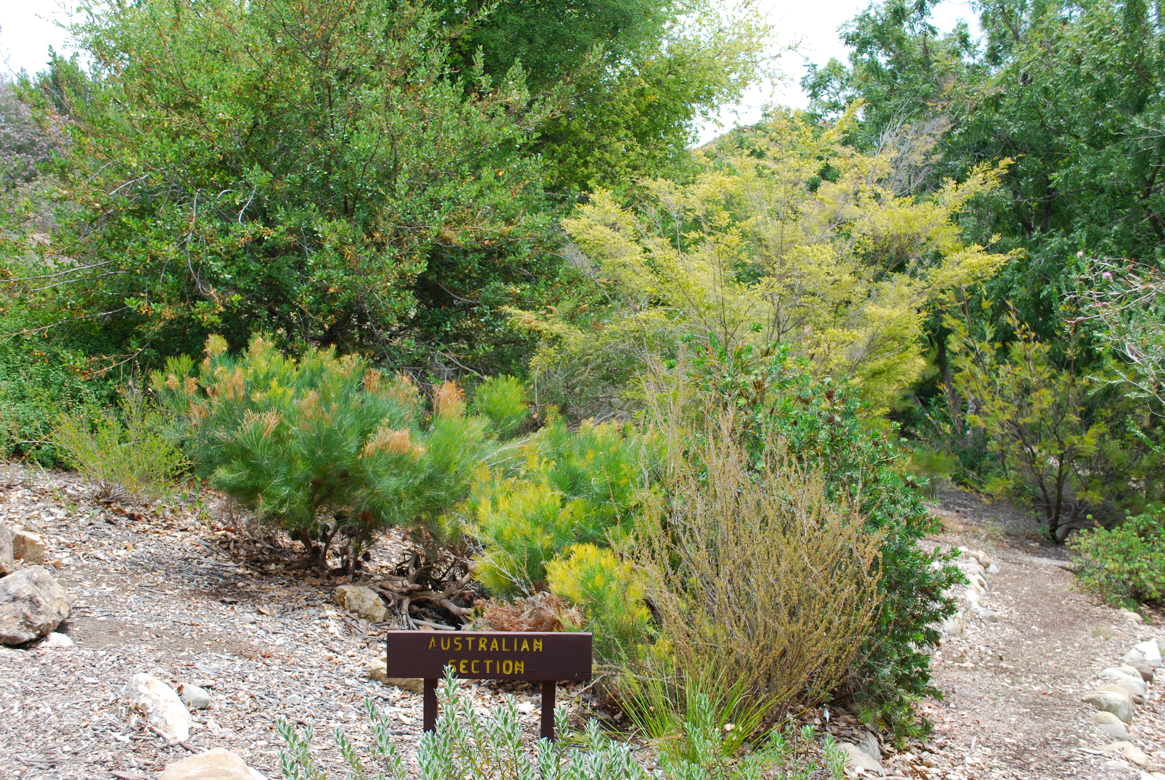 Australian Garden at Conejo Valley Botanic Garden, Thousand Oaks, CA.